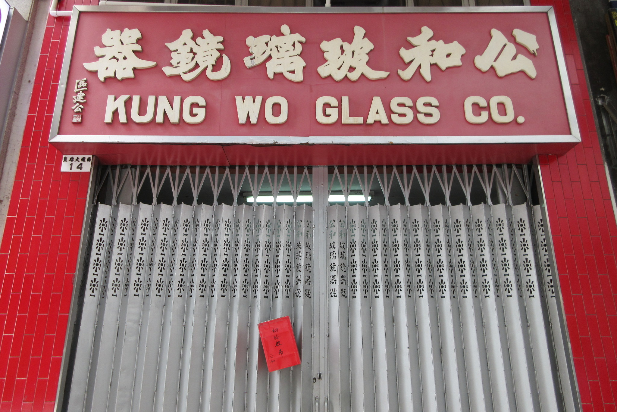 HK 上環 Sheung Wan Queen's Road West shop in Feb 2017